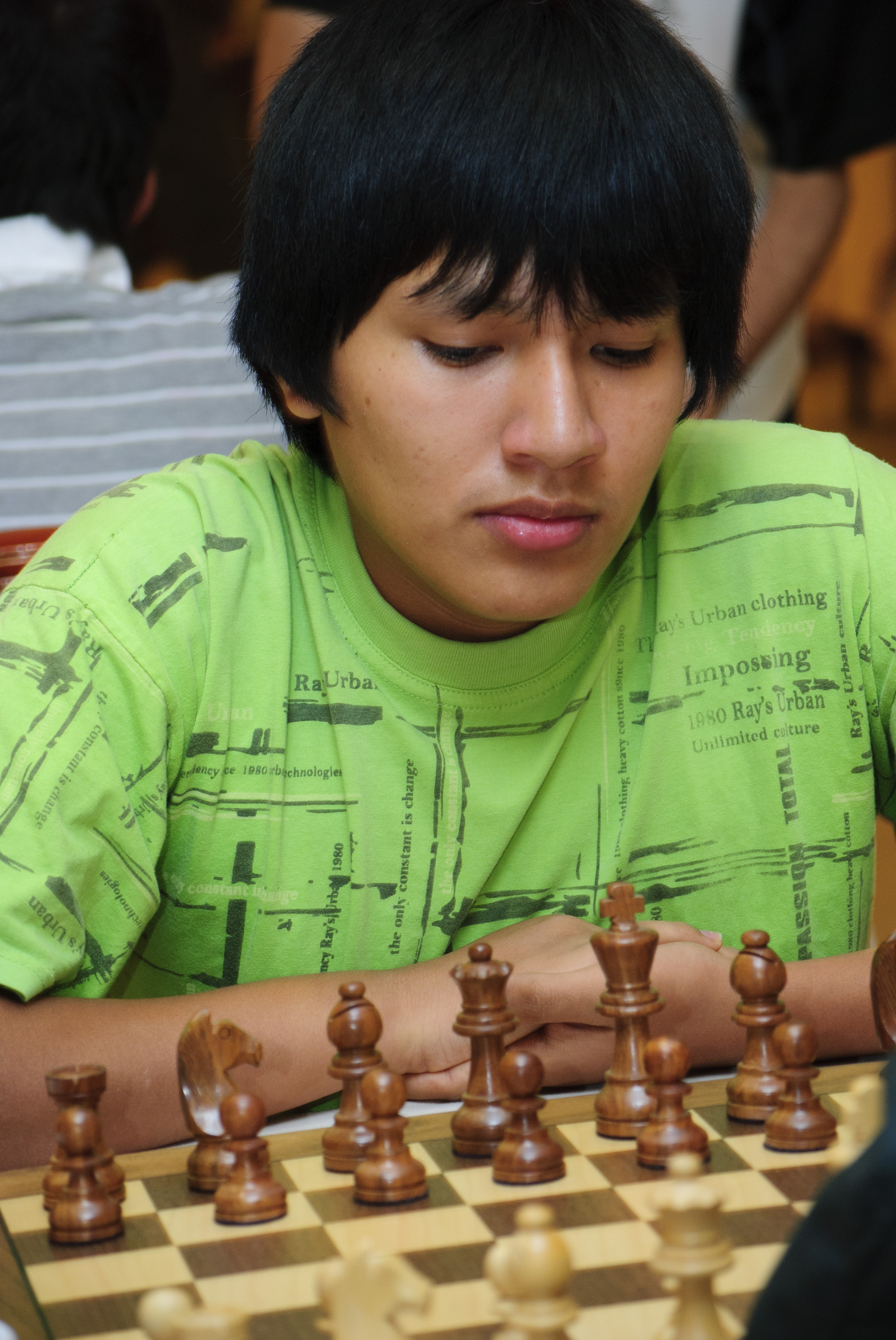 GM Jorge Cori Tello, WChJ Athens 2012